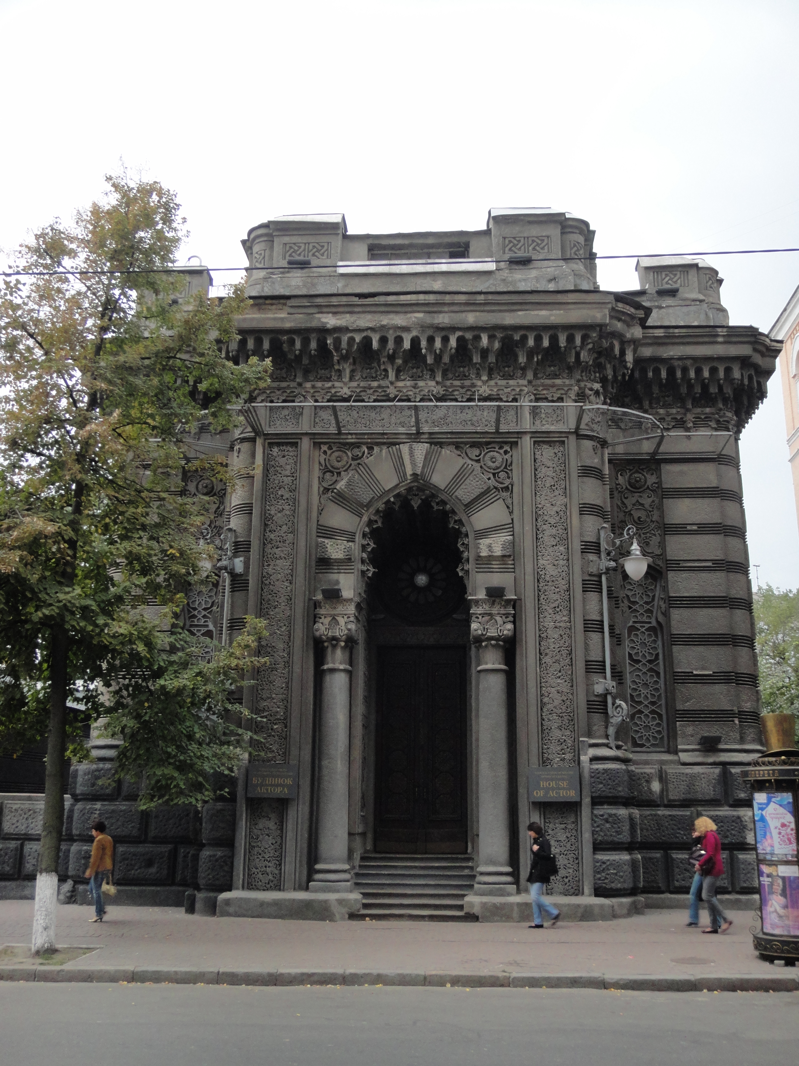 Yaroslaviv Val St., 7, Kyiv The Karaite Kenesa of Kyiv - Karaite synagogue (1900) Protection number № 67 30.510964,50.449879